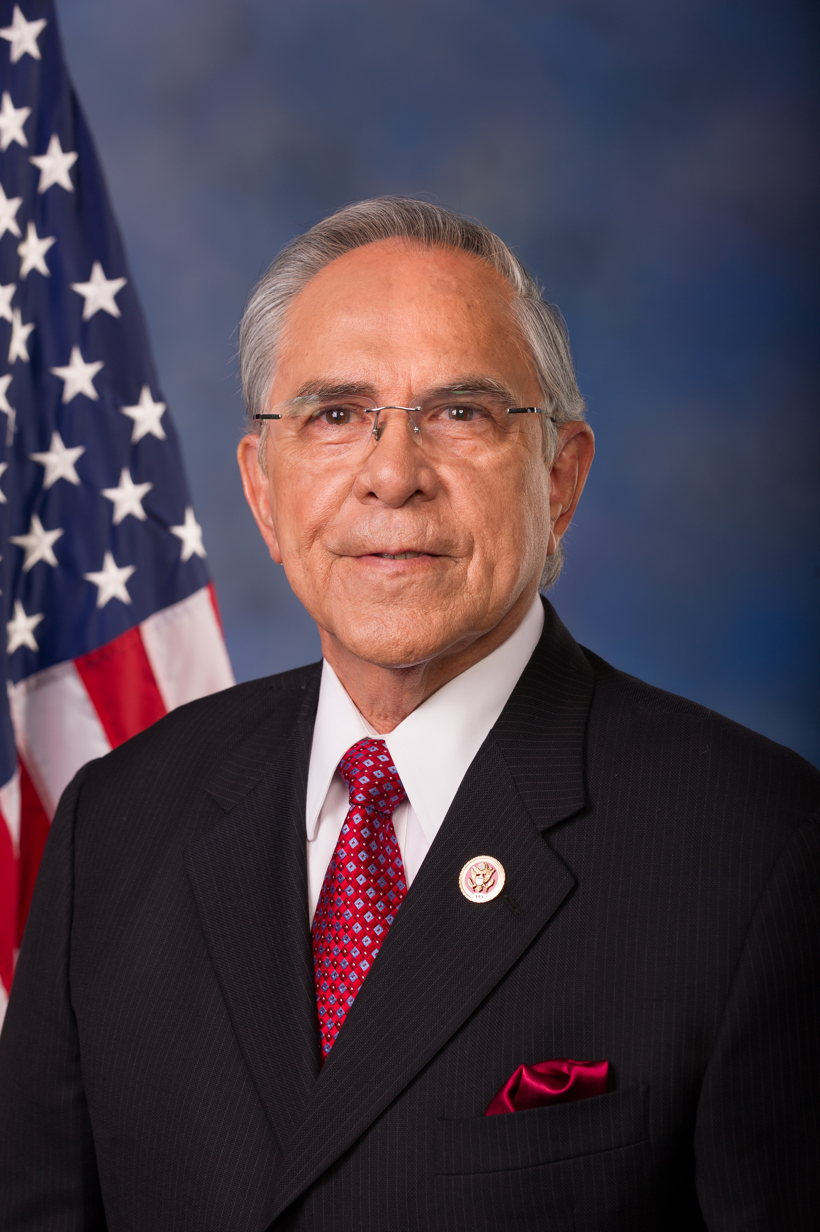 Ruben Hinojosa, 2013